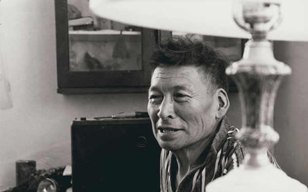 Depicted person: Peter Pitseolak – Inuit photographer, sculptor, artist and historian Canada